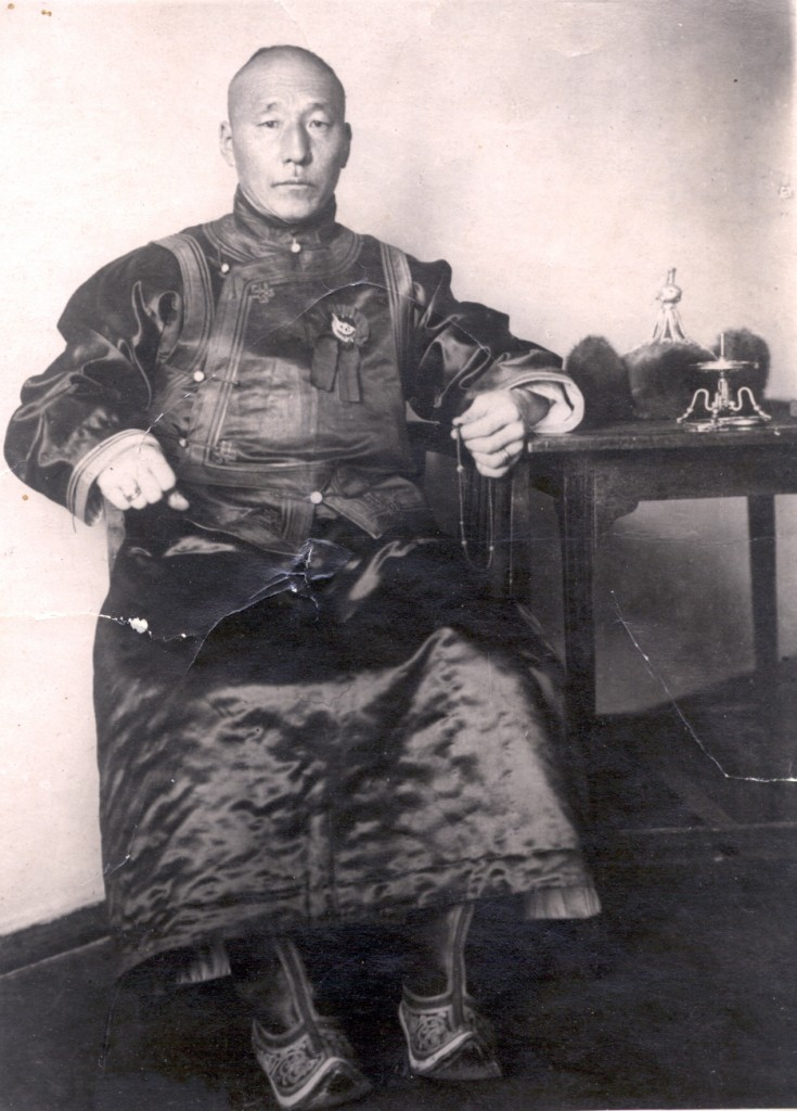 Khatanbaatar Magsarjav Монгол: Хатанбаатар Магсаржав - ерөнхий сайд, генерал